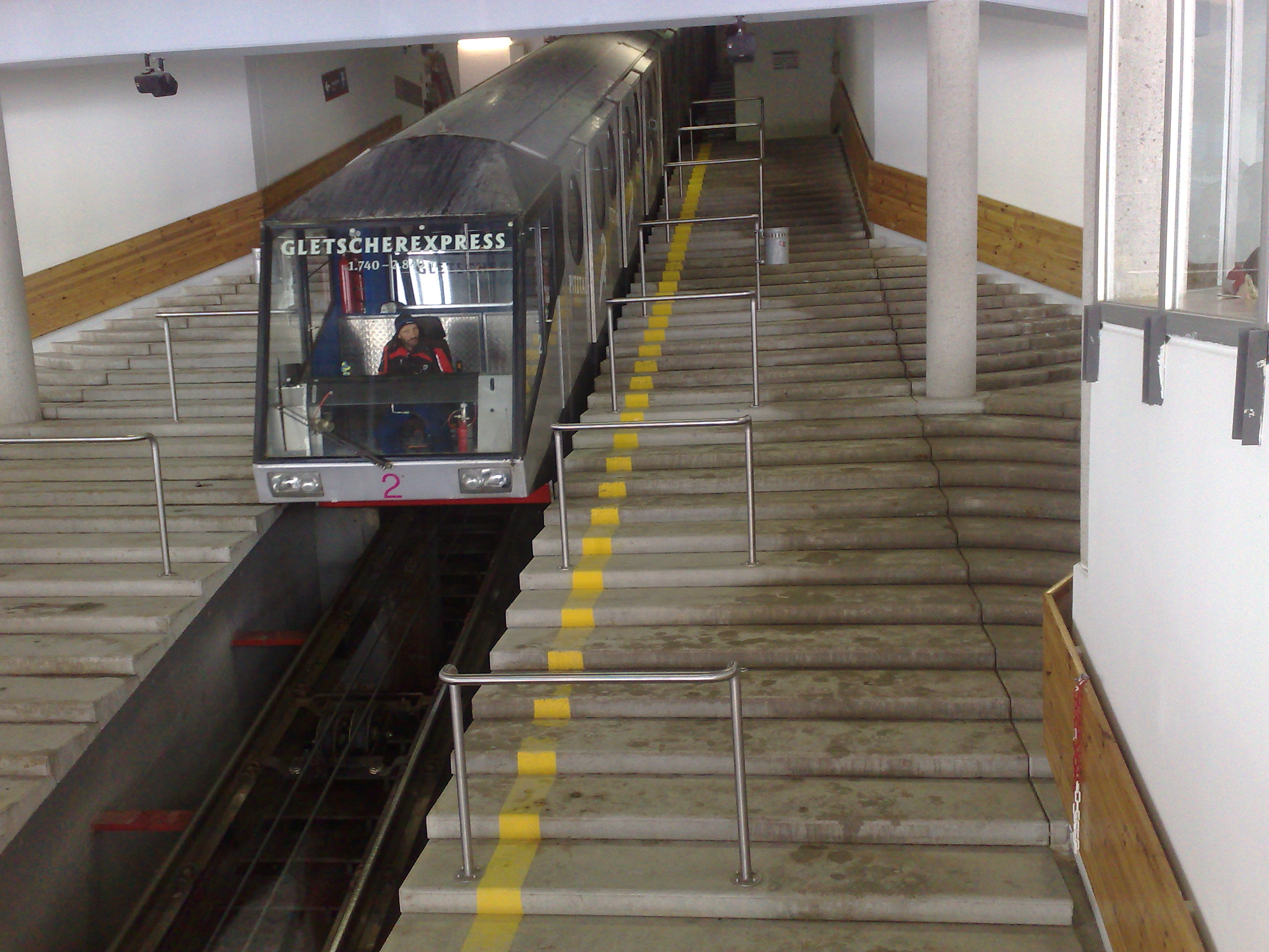 Picture of the Pitztal Glacier Express, used as a means of transport between the valley level station at 1700m and the glacier platform at about 2800m.